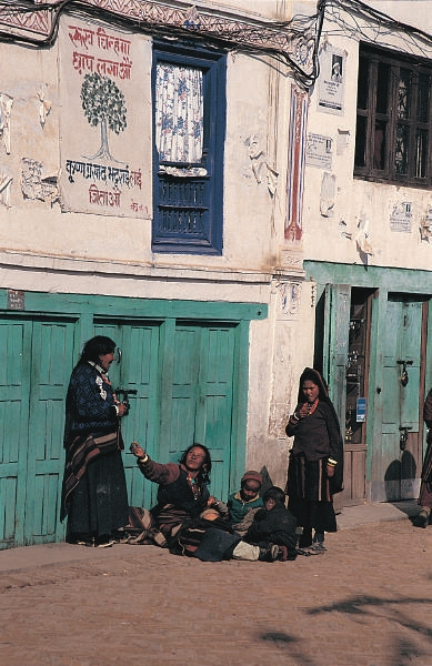 Tibetan refugees in Bhodnath, Nepal. The Tibetan refugees were devout Buddhists who felt they were persecuted for their religious beliefs by the Chinese after the 'Liberation' of Tibet in 1959.